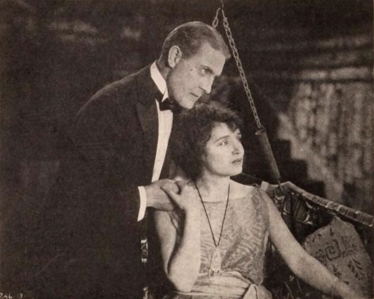 Still from the American comedy film Her Lord and Master (1921) with Holmes Herbert and Alice Joyce, on page 64 of the February 19, 1921 Exhibitors Herald.